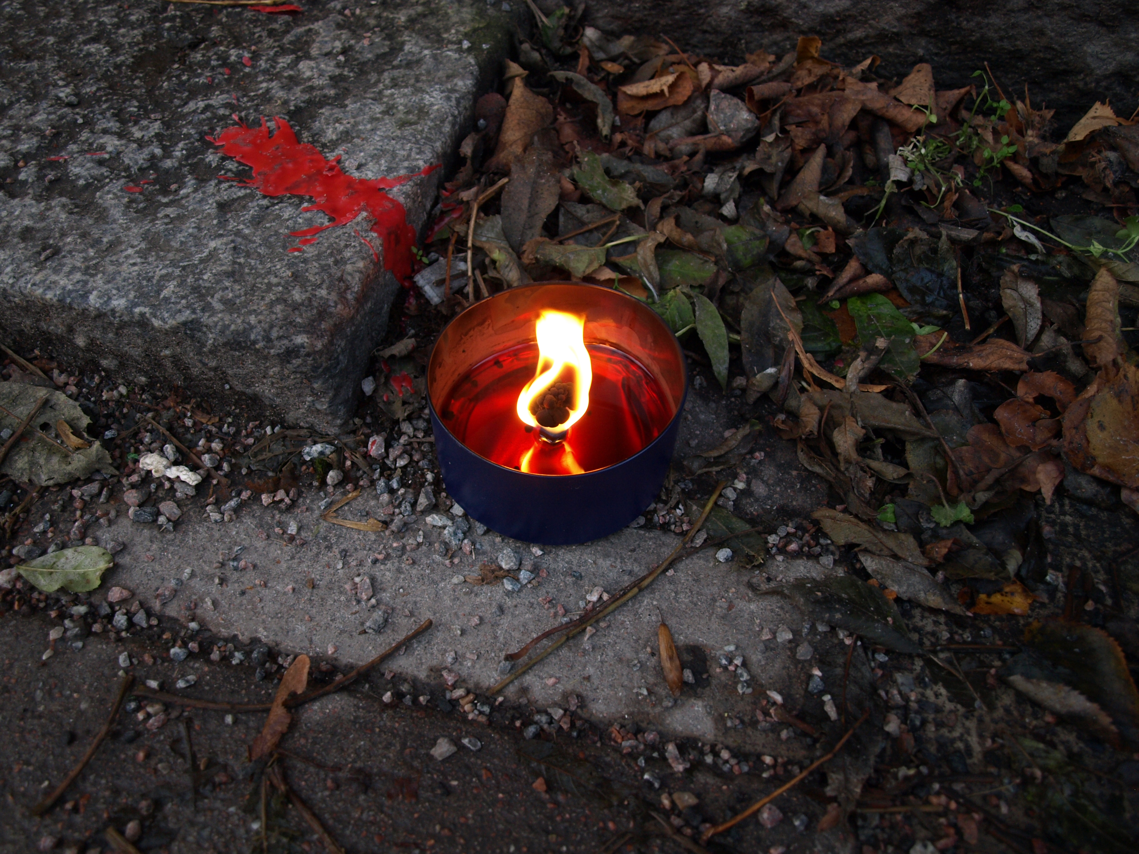 Burning pitch torch outside a building in Sweden.